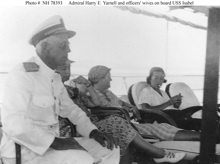 Admiral Harry E. Yarnell, USN, (left) Commander-in-Chief, U.S. Asiatic Fleet on board USS Isabel (PY-10) in Philippine waters, January 1937. Wives of three of the Fleet's officers are also present. U.S. Naval Historical Center Photograph. from [1]